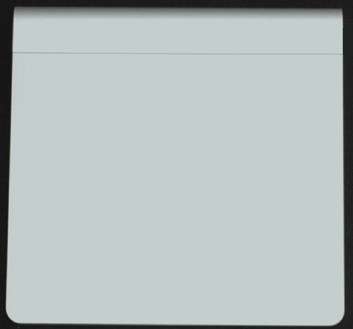 Apple Magic Trackpad